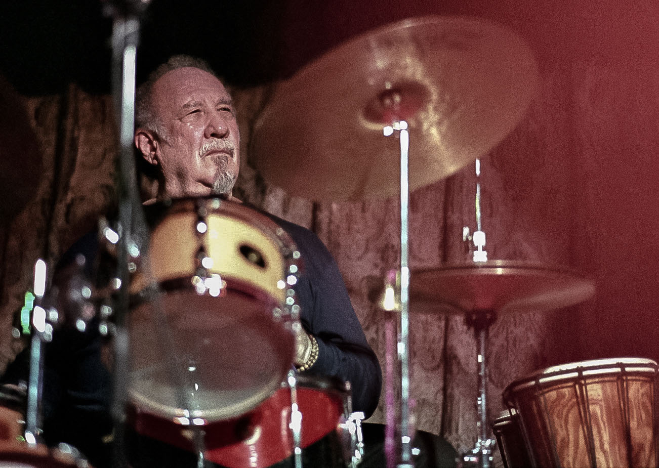 Abbey Rader playing live at PAX Miami. Concert included Kidd Jordan